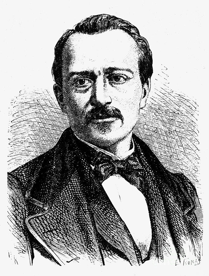 Étienne Lenoir (1822–1900)